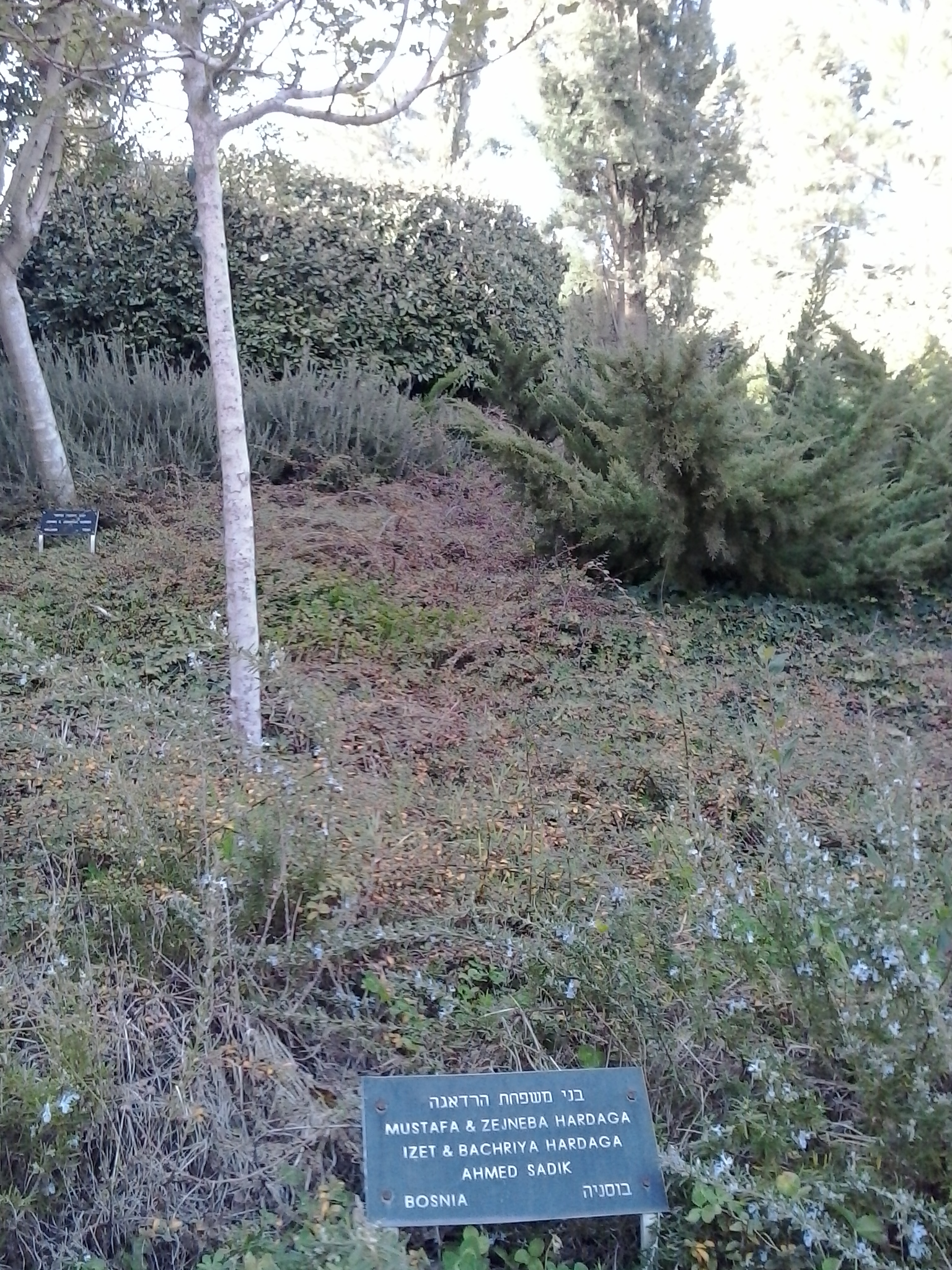 The tree planted at Yad Vashem honoring Righteous Among the Nations Zejneba Hardaga